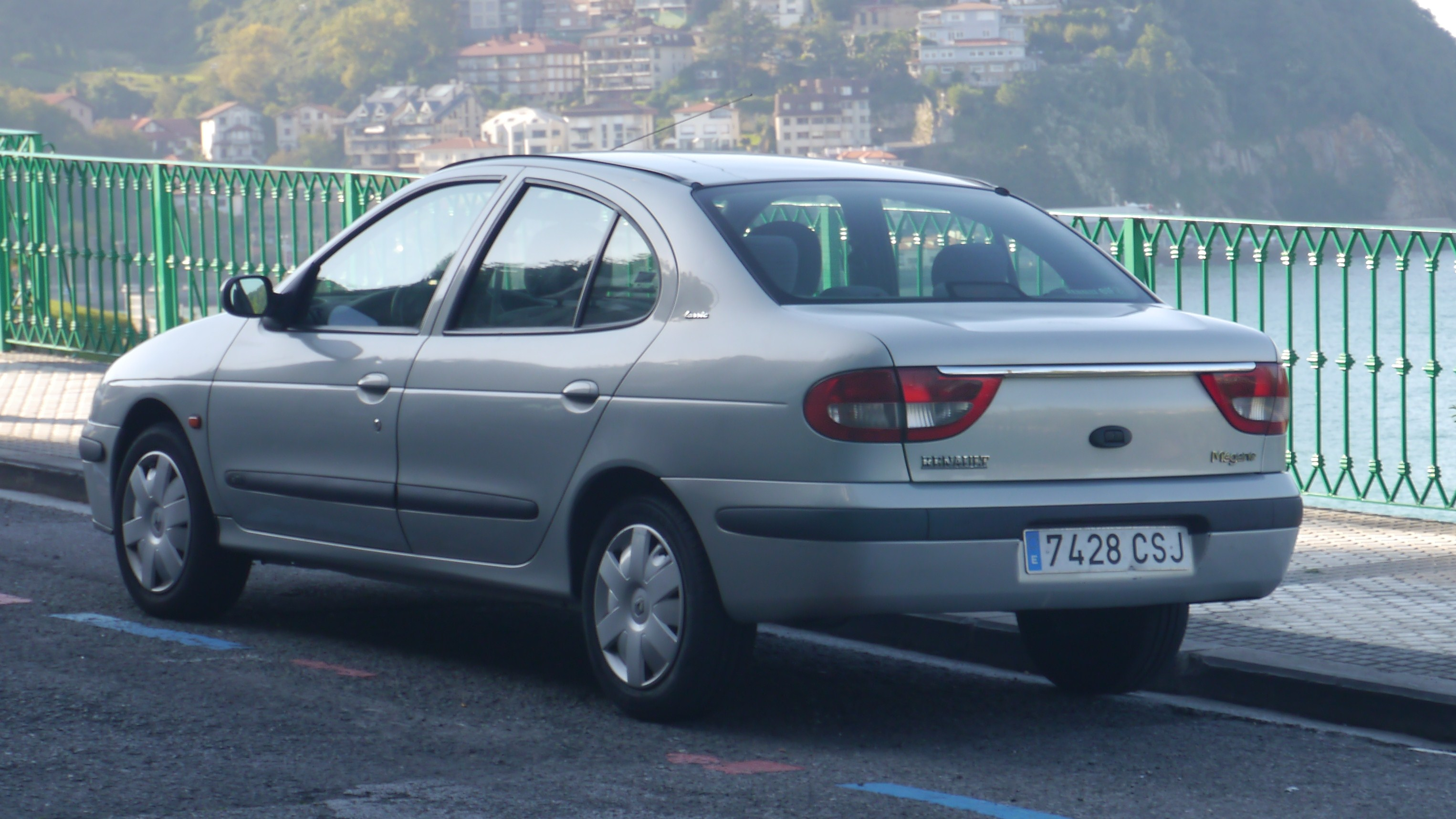 San Sebastian, Spain. This is another favourite of mine, the Megane Classic sedan. This one looked to be in very good condition.